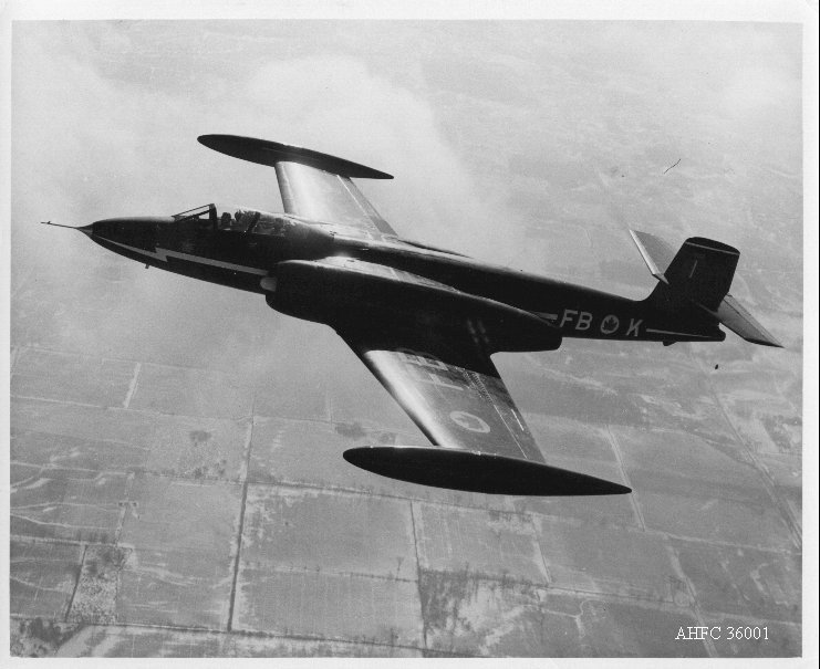 Avro CF-100 (Canuck) Prototype #18102 in flight.